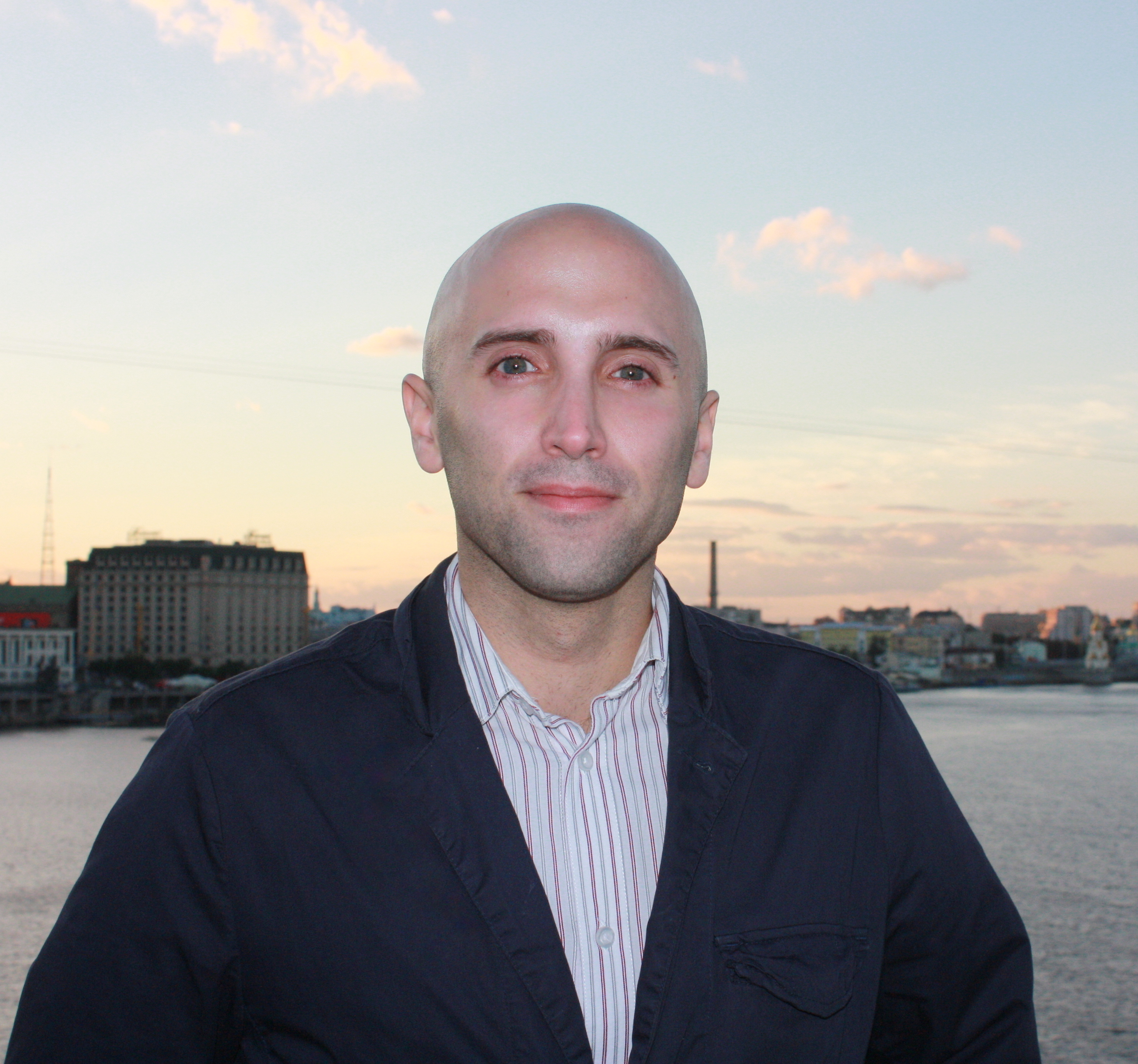 Graham W Phillips anti-Ukrainian provocateur and pro-Russian propagandist